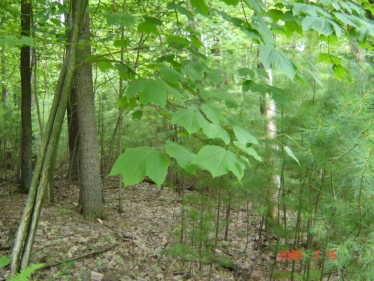 N3362 06:31, 15 January 2007 (UTC)